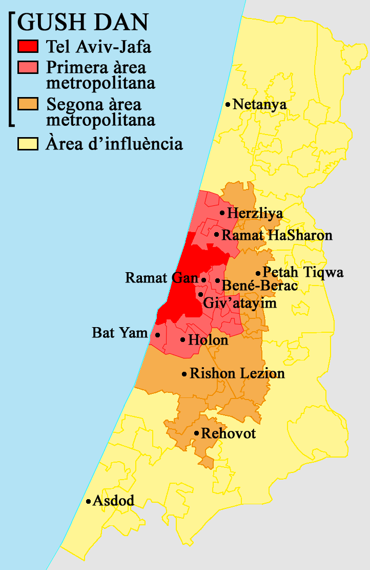 Map of the Gush Dan region (Tel Aviv's metropolitan area). LEGEND: Dark red: Tel Aviv. Light red: First metropolitan area. Orange: Second metropolitan area. Yellow: Influence area.